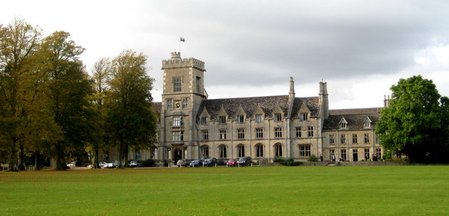 Royal Agricultural College Designed by Samuel Whitfield Daukes (1811-1880)(please ))of Messrs Daukes & Hamilton of Cheltenham and completed in December 1844. The newly built college became the winning design in an architectural competition and is described as Tudor with influences of an Oxford college. The tower was intended as an observatory. The stone is limestone from local quarries.